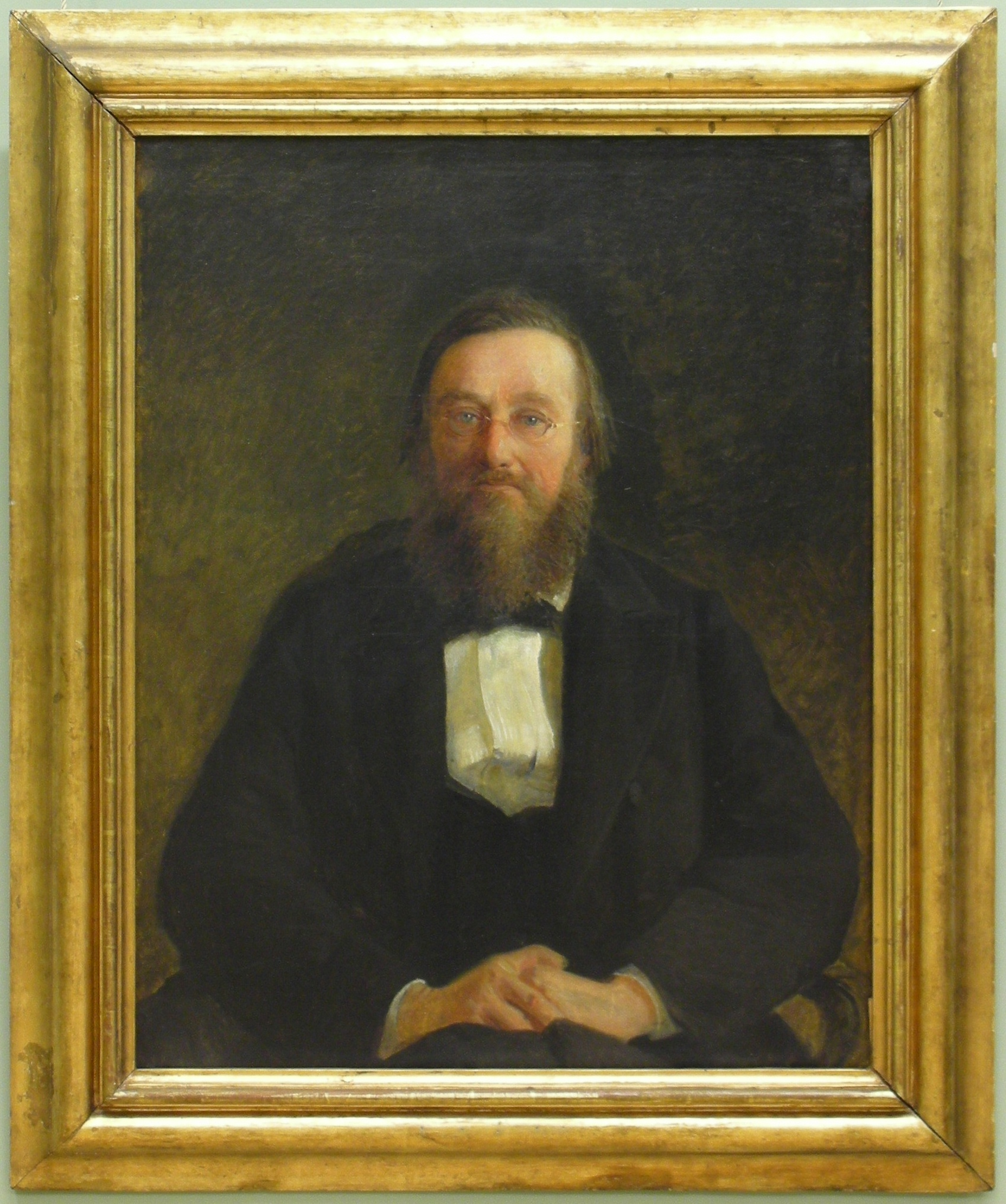 Nikolay Ghe - Portrait of Historian M. Kostomarov